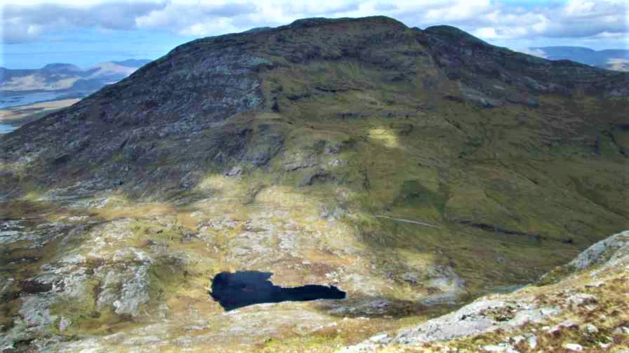 Binn Chaonaigh from the summit of Binn Mhor, Maumturks, Ireland